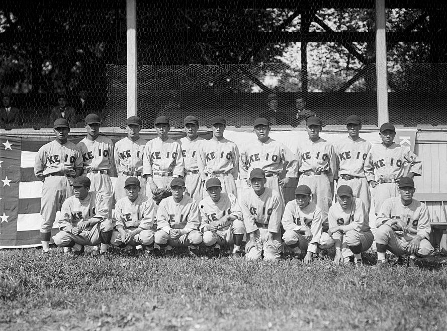 Japanese Ball team, Keio University.